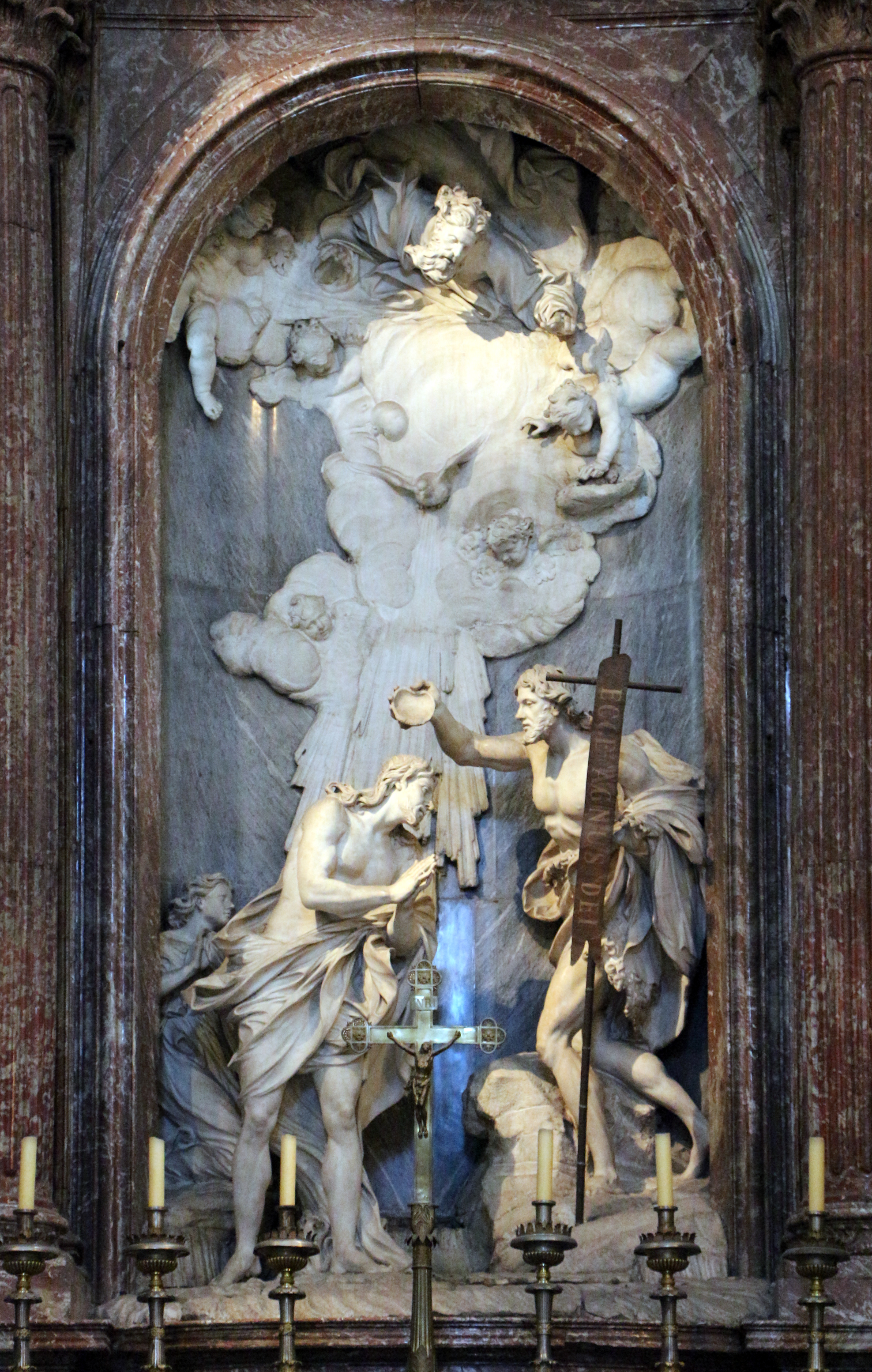 San Giovanni dei Fiorentini (Rome) - Interior